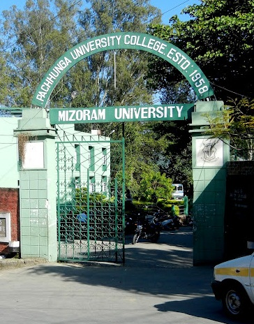 Pachhunga University Entrance gate